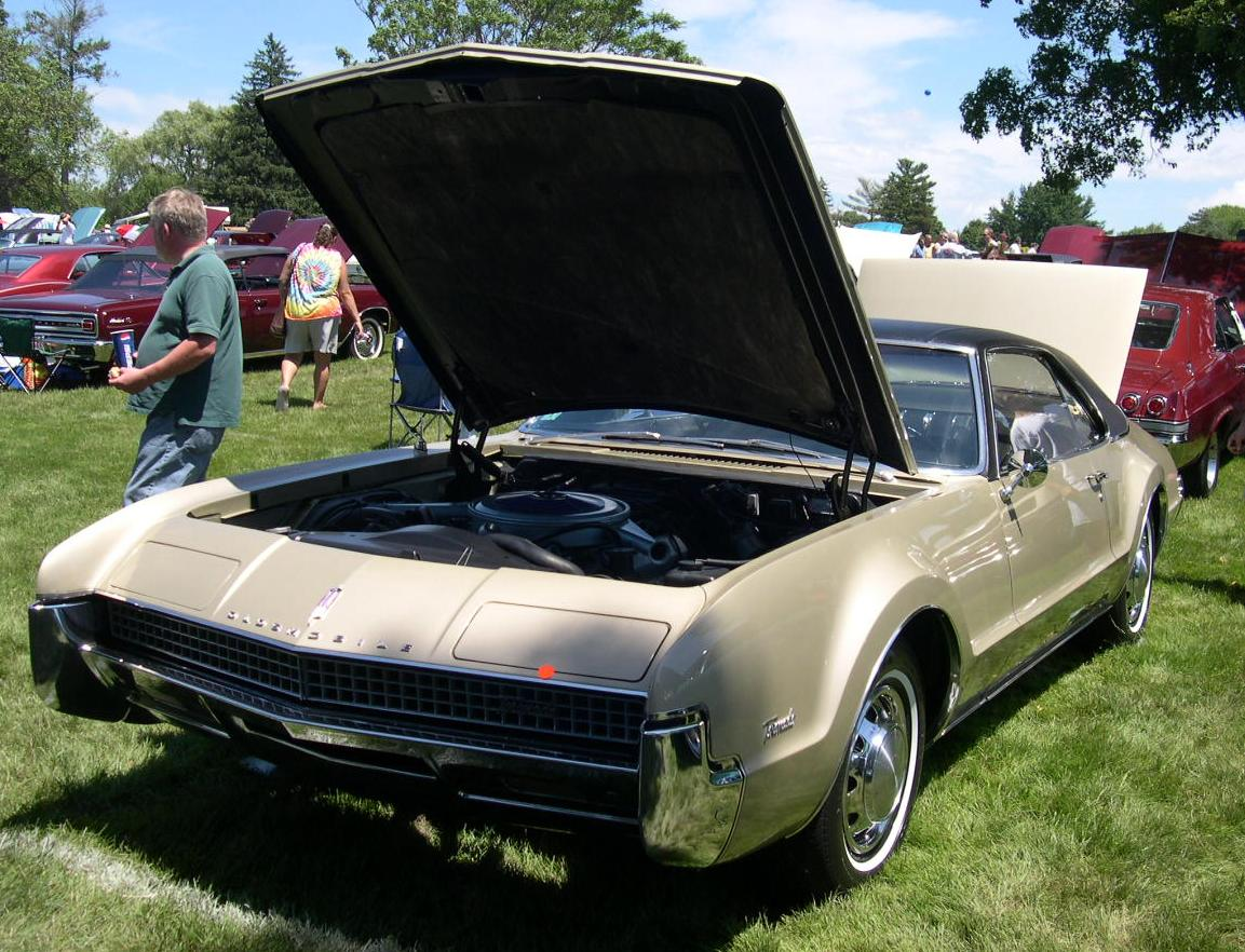 1967 Oldsmobile Toronado Source: Photographed at the Bay State Antique Automobile Club's July 10, 2005 show at the Endicott Estate in Dedham, MA by User:Sfoskett